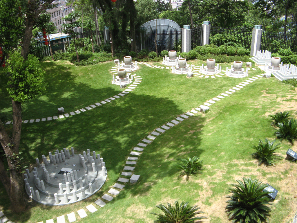 Seven-star Jars of Fuzhou Zhenhai Tower